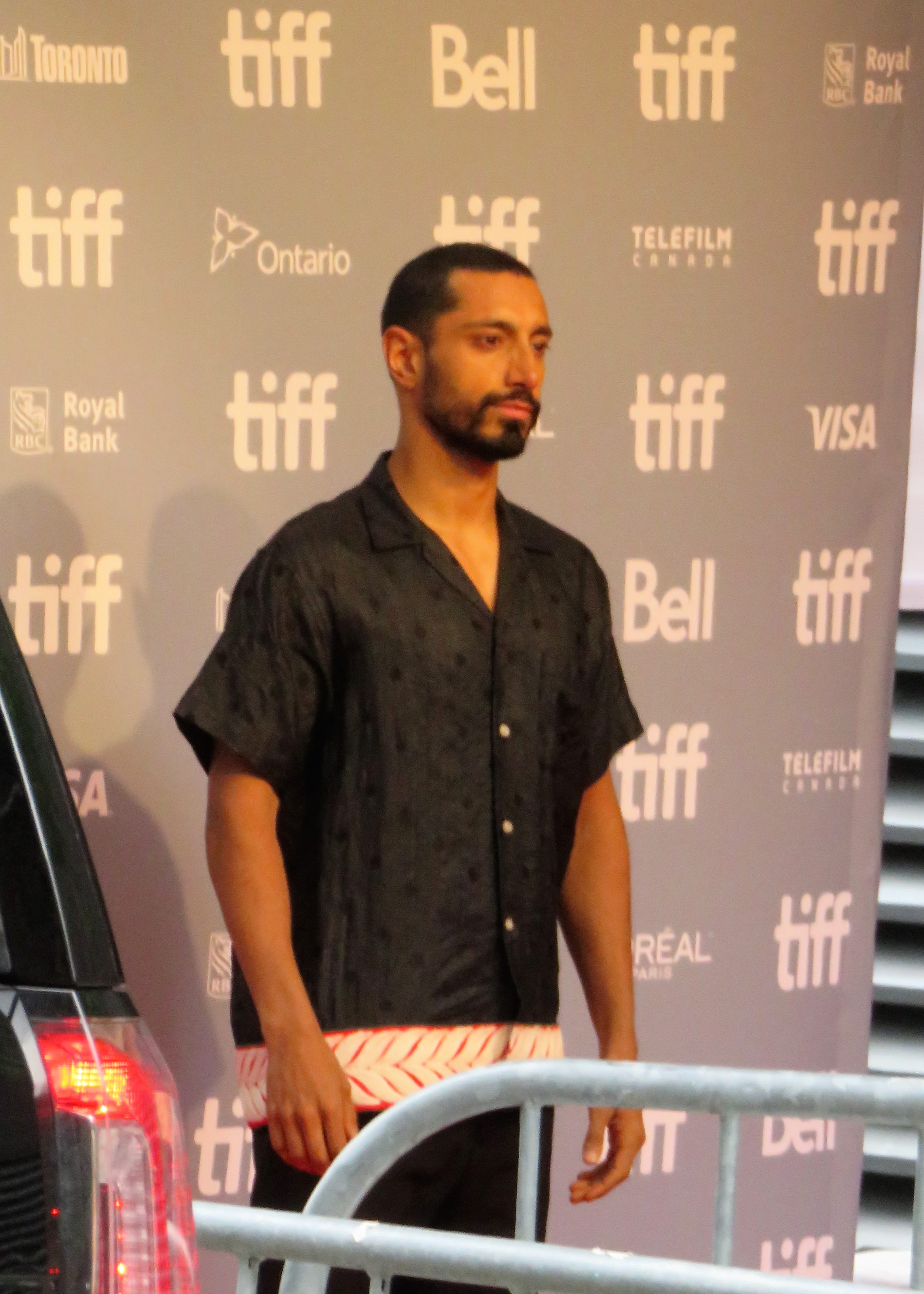 Riz Ahmed at the press conference of Sisters Brothers, 2018 Toronto Film Festival.